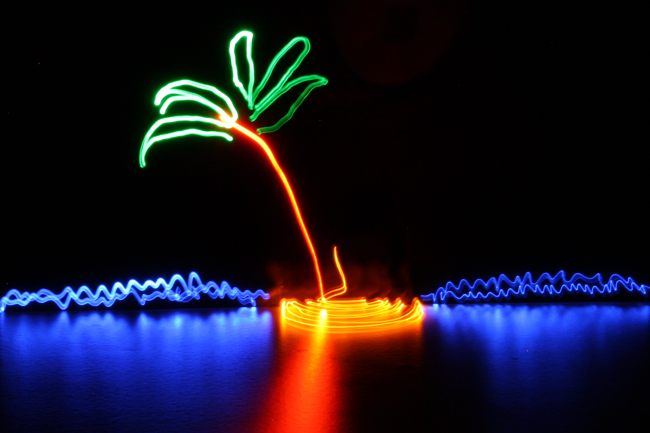 time exposure LED painting